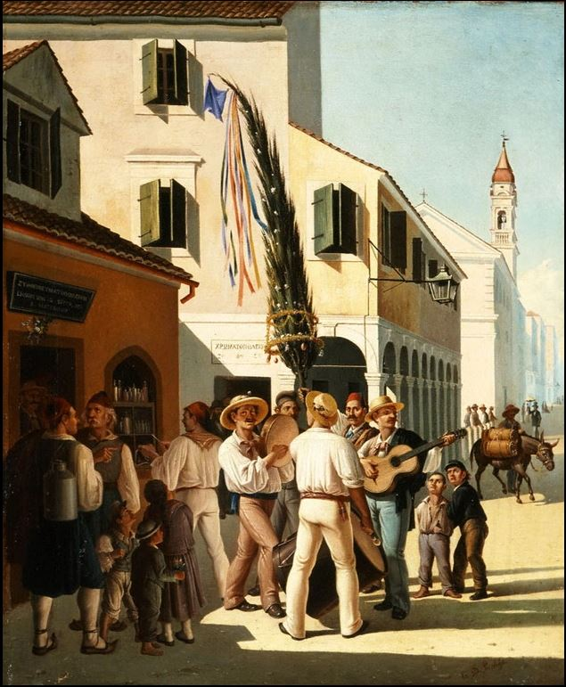 May Day in Corfu